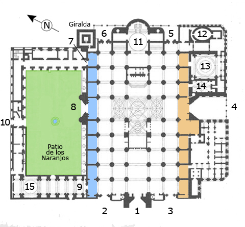 Plan of the Cathedral of Seville and 'Patio of the Oranges' courtyard, Andalusia, Spain.